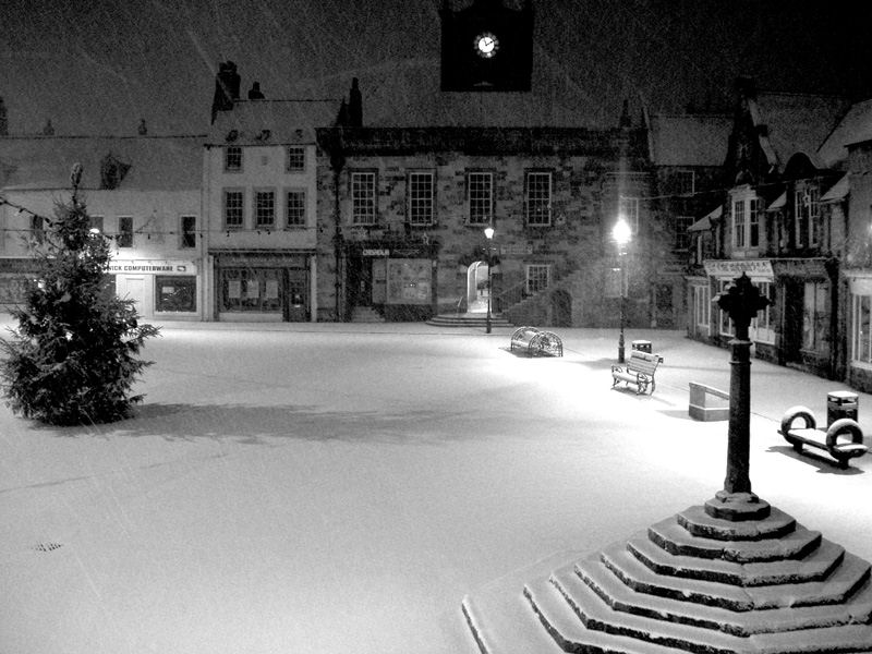 Alnwick marketplace, at night, in the snow